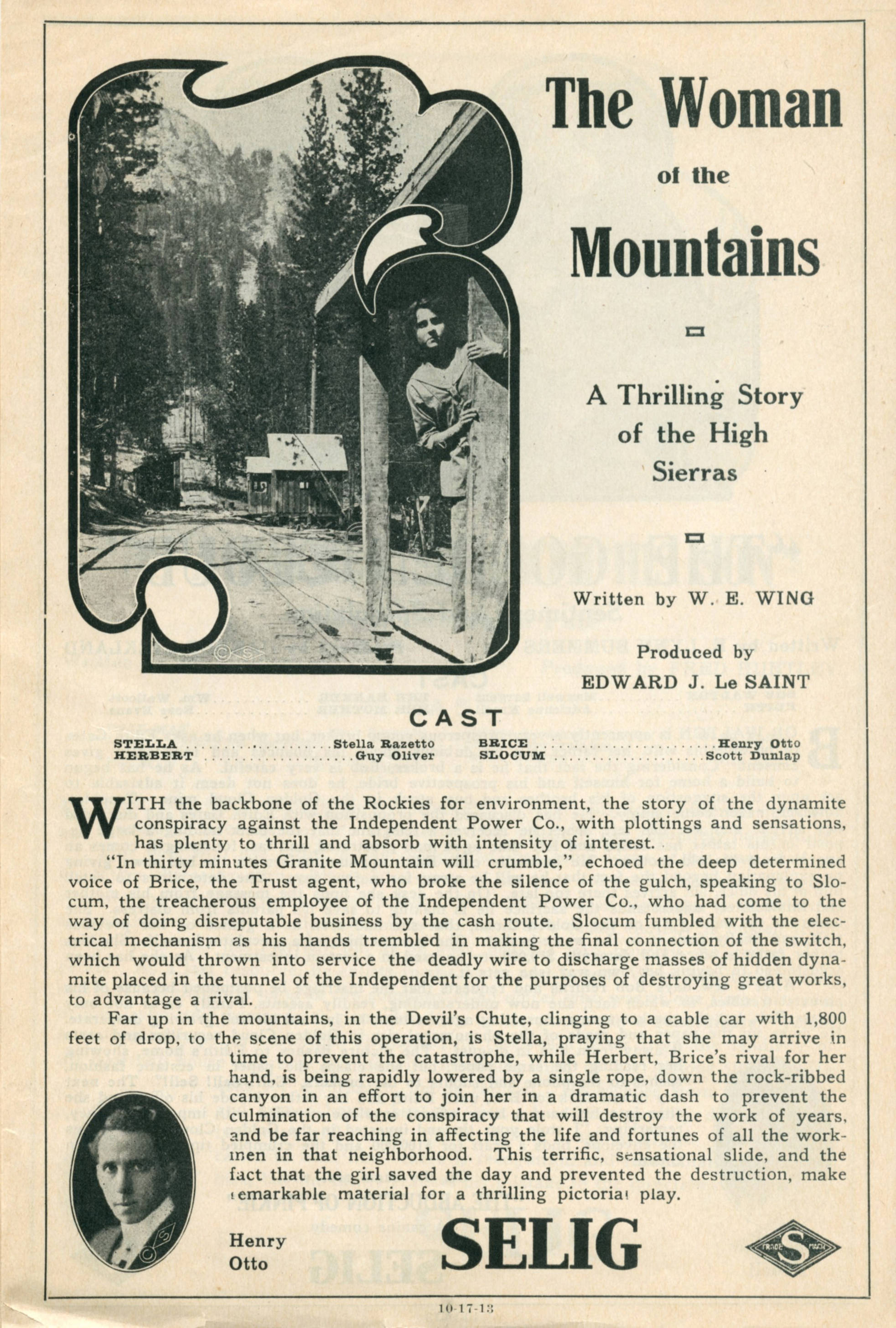 Release flier for THE WOMAN OF THE MOUNTAINS, 1913